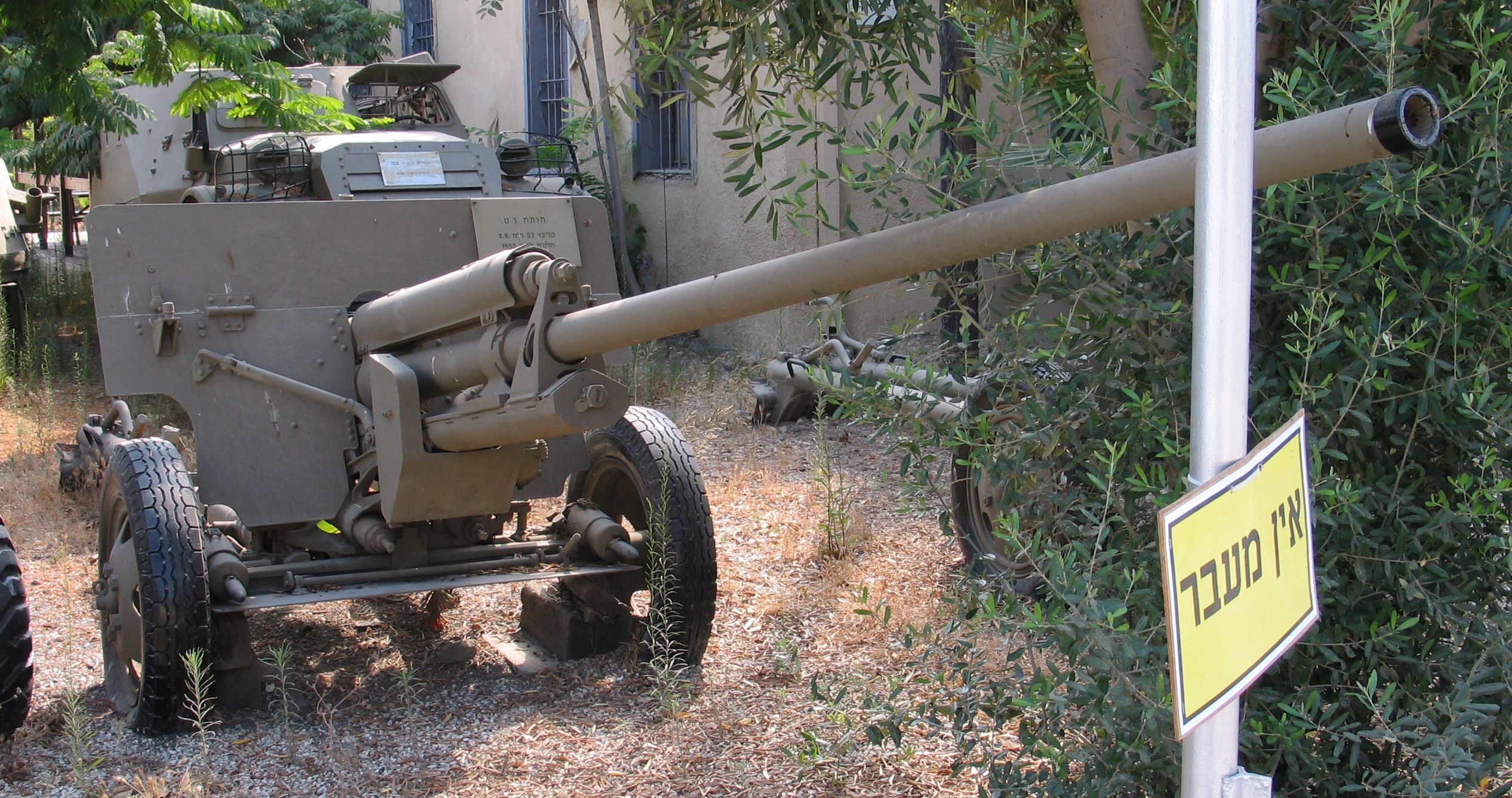 Soviet 57-mm antitank gun ZiS-2 in Batey ha-Osef Museum, Tel Aviv, Israel.